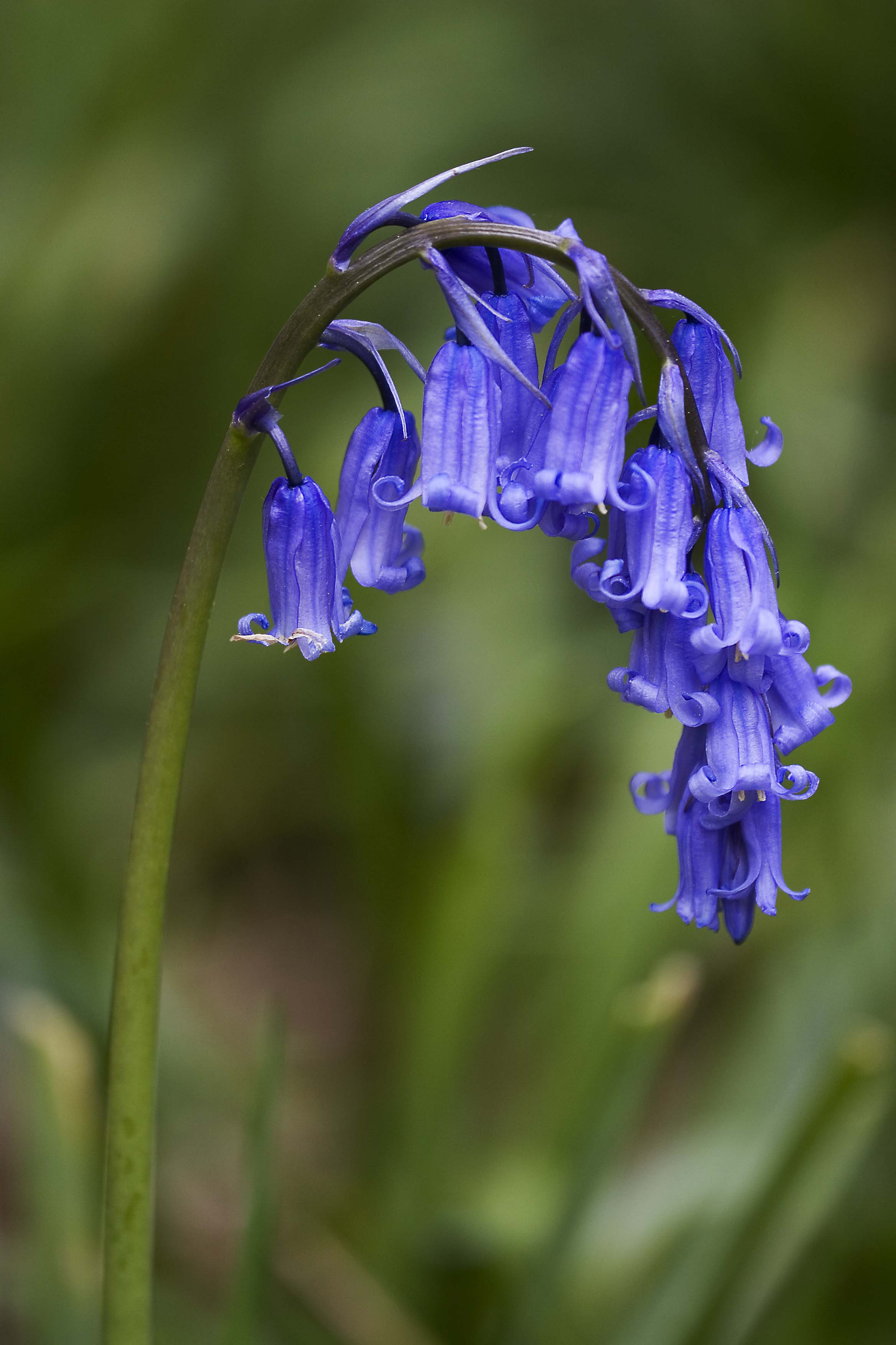 Hyacinthoides non-scripta (Common Bluebell), taken at Ashridge Forest, Hertfordshire, UK.